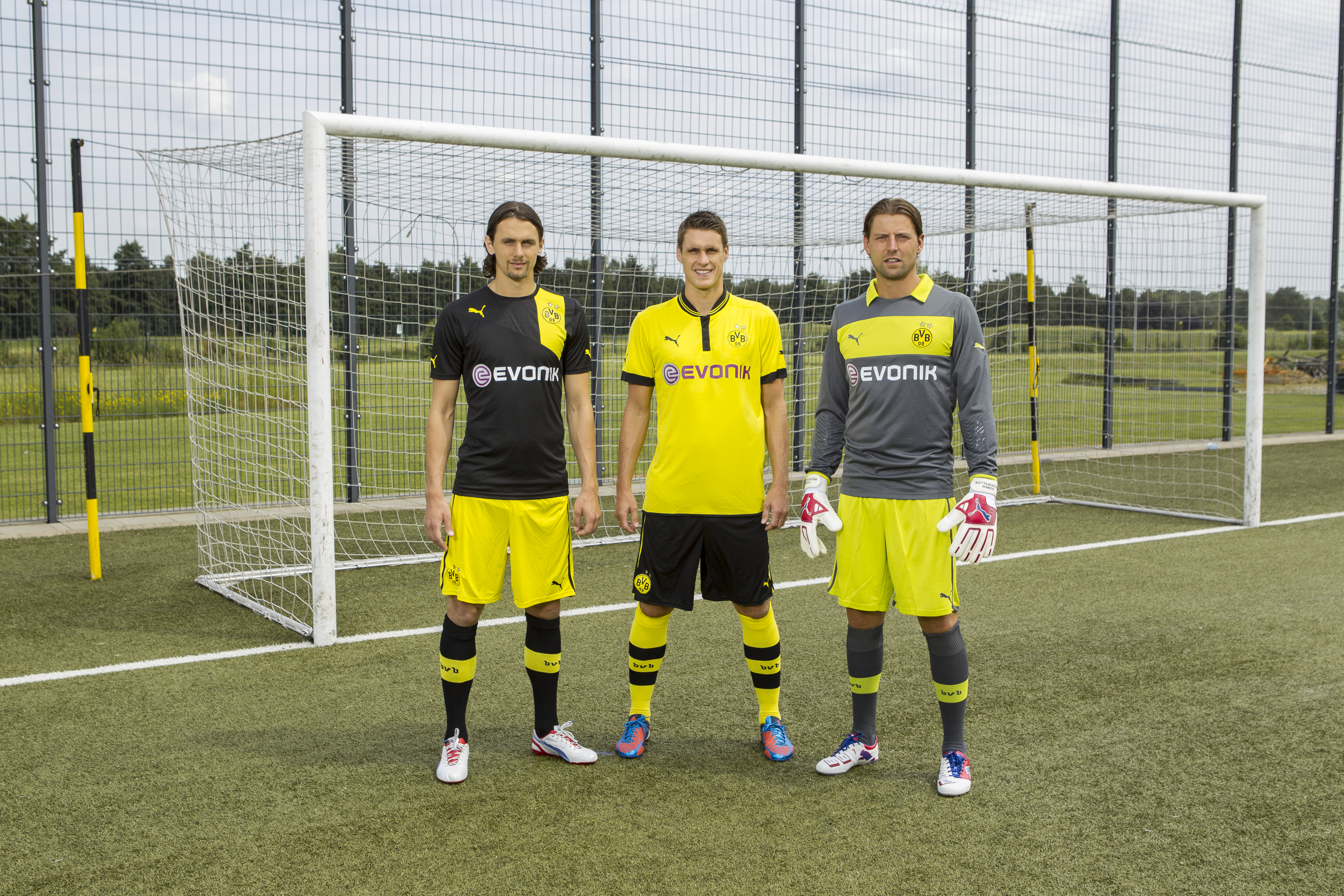 Borussia Dortmund footballers (left to right): Neven Subotić, Sebastian Kehl and Roman Weidenfeller.